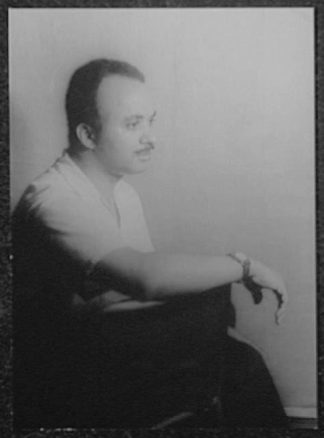 Title: Portrait of Eldzier Cortor Abstract: 1 photographic print : gelatin silver.